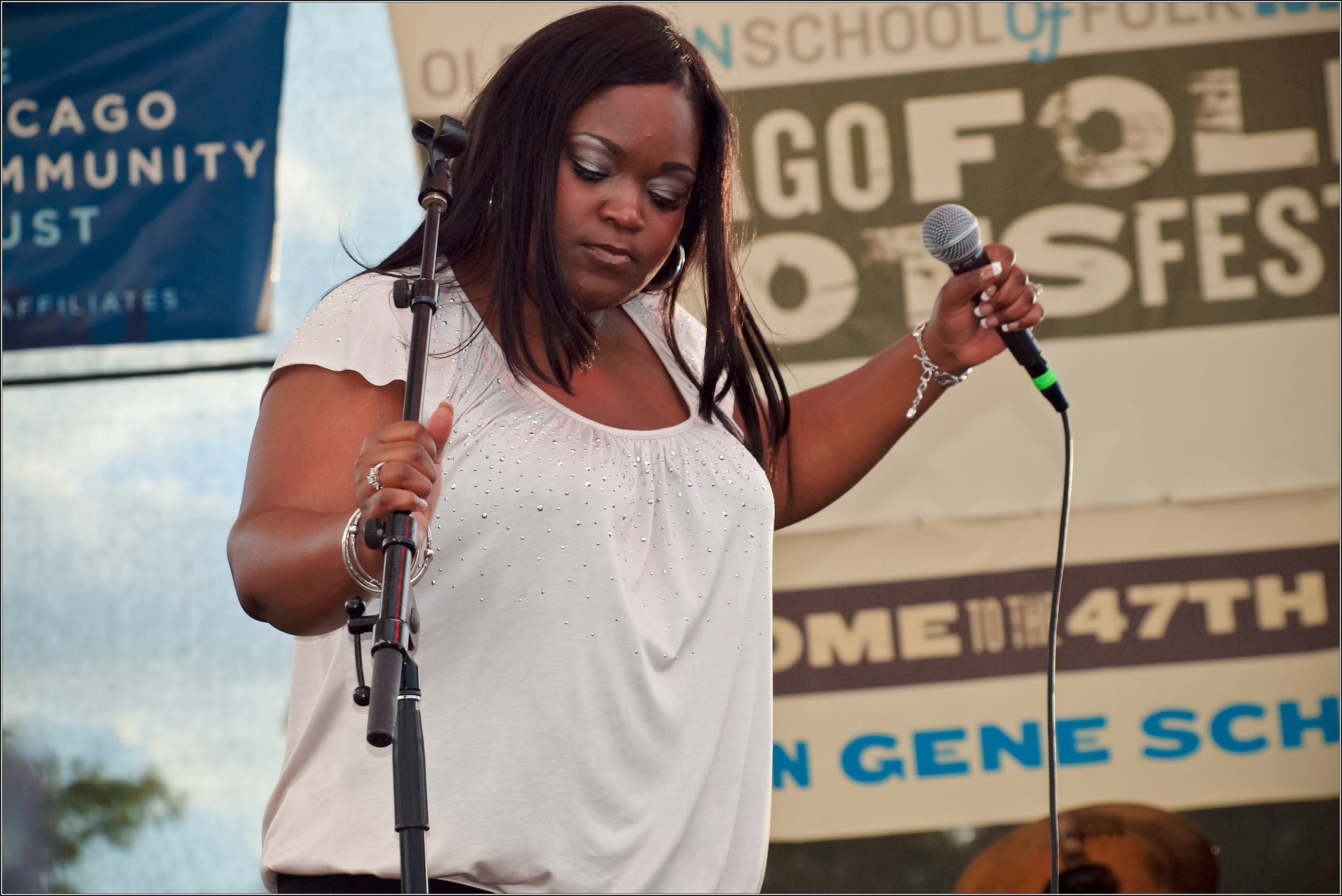 Chicago Folk & Roots Festival 7/10/2010